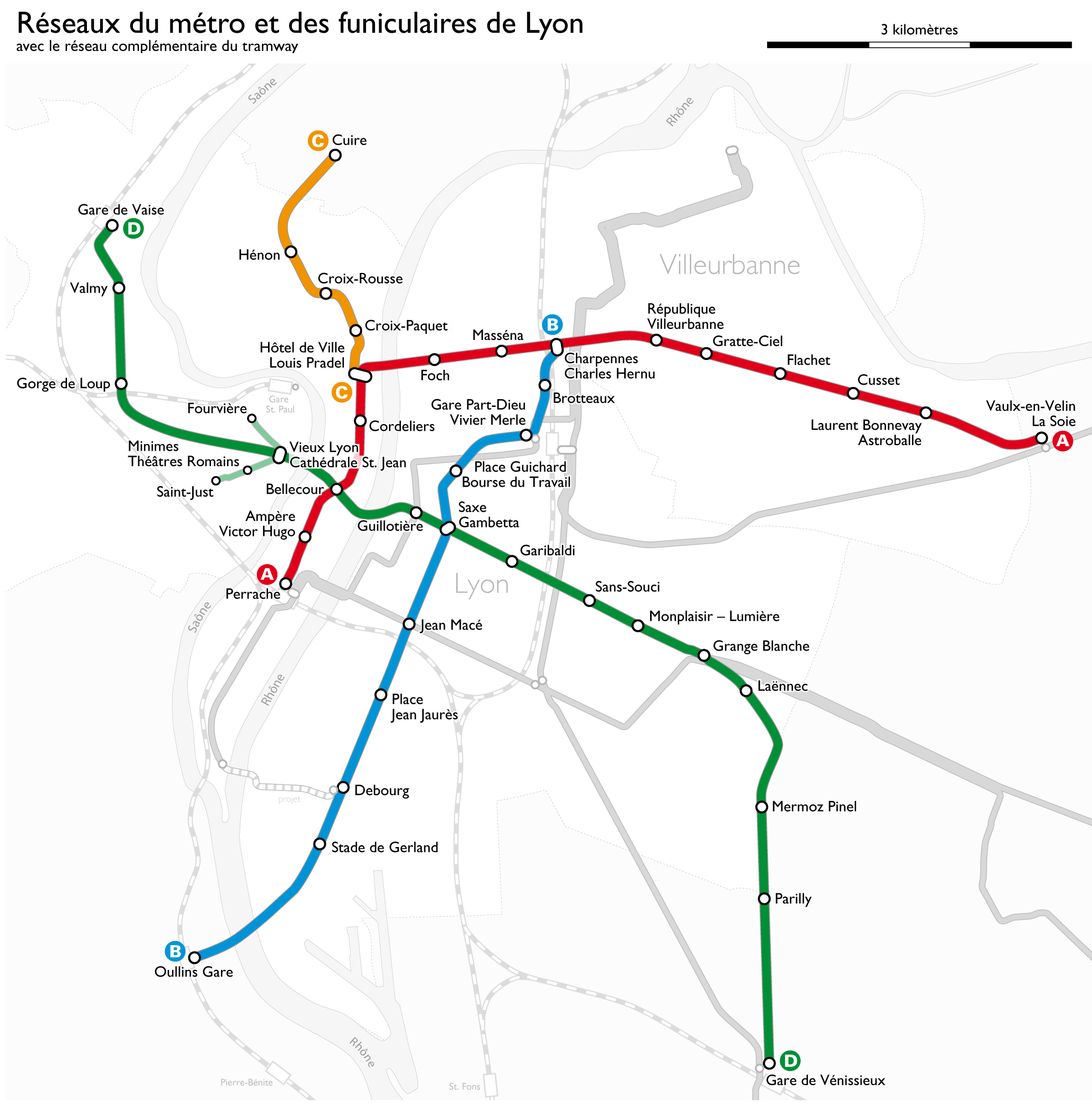 Map of Lyon: Metro with tramway and trolleybus Cristallis routes in the background as in August 2010